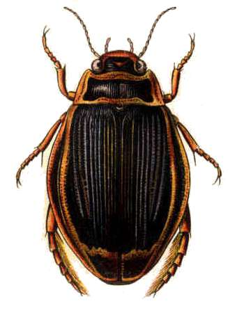 Dytiscus latissimus, a predacious diving beetle.